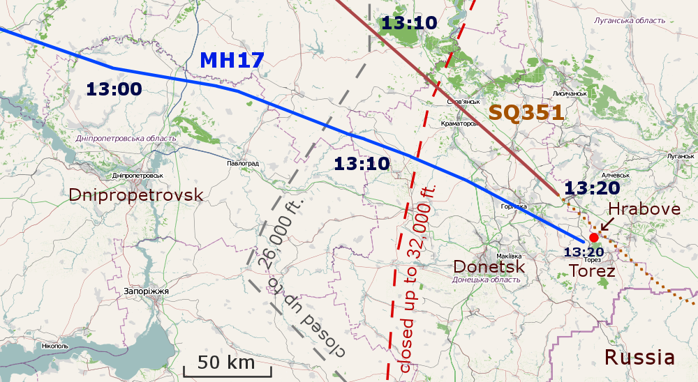 Route of Malaysia Airlines flight 17 on 17 Juli 2014 at 12:55 to 13:20 UTC, and Singapore Airlines flight 351 at 13:08 to 13:27 UTC; flight data from Flightradar24 (MH17, SQ351), rendered map from OpenStreetMap; restricted airspace zones as to NOTAMs A1383/14 and A1492/14. This map may be incomplete, and may contain errors. Don't rely solely on it for navigation.